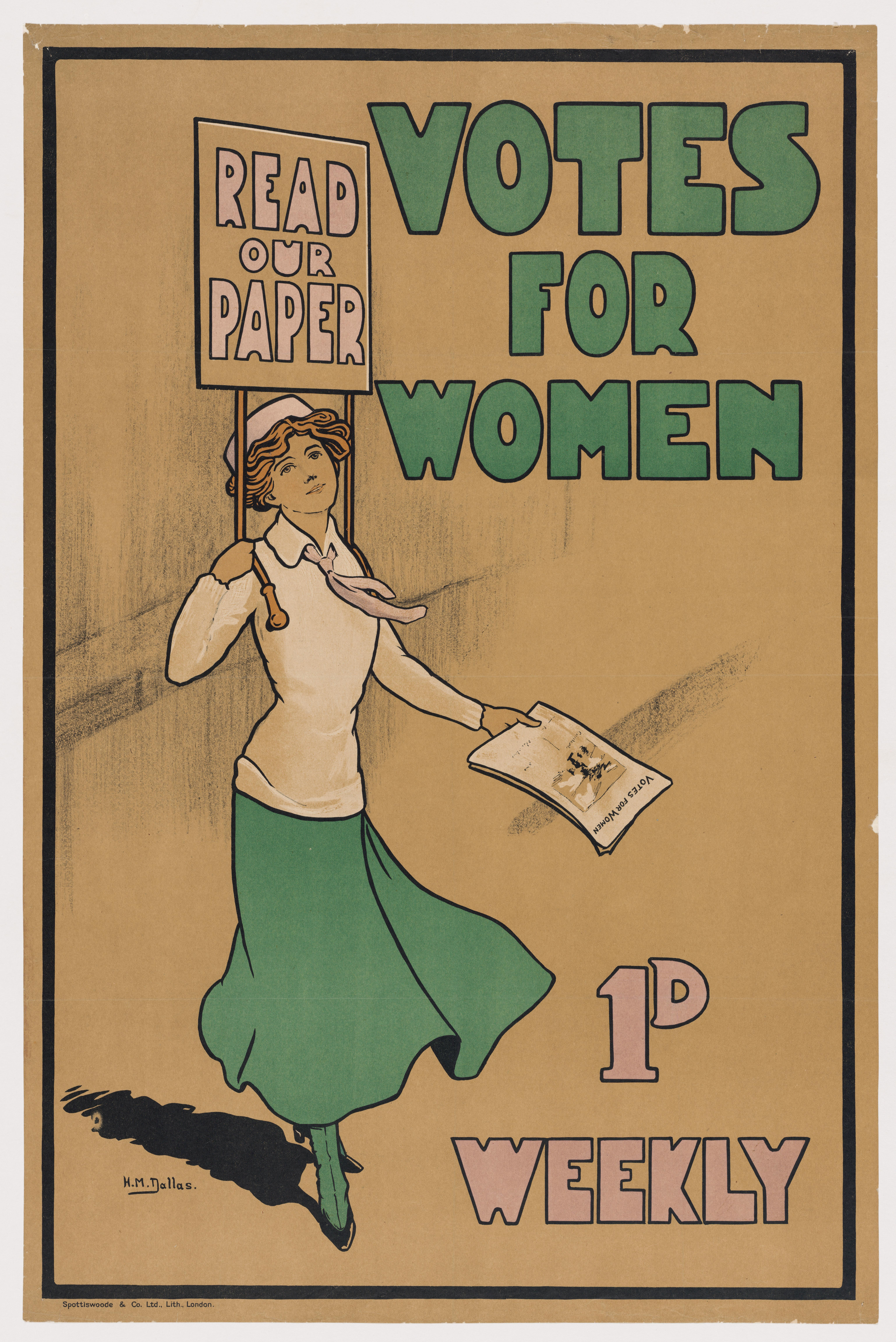 Suffrage poster: "Read our paper. Votes for women."